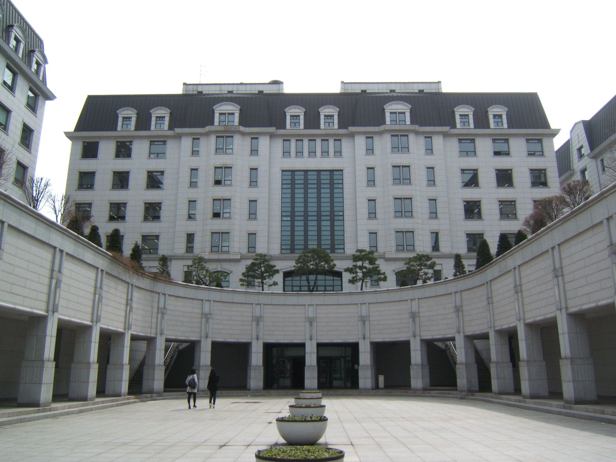 College of Pharmacy at Sookmyung Women's University